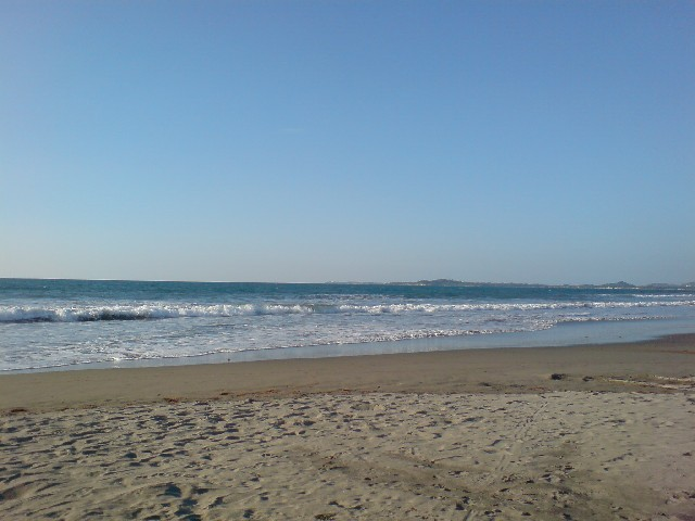 Bauang Beach in Bgy. Taberna